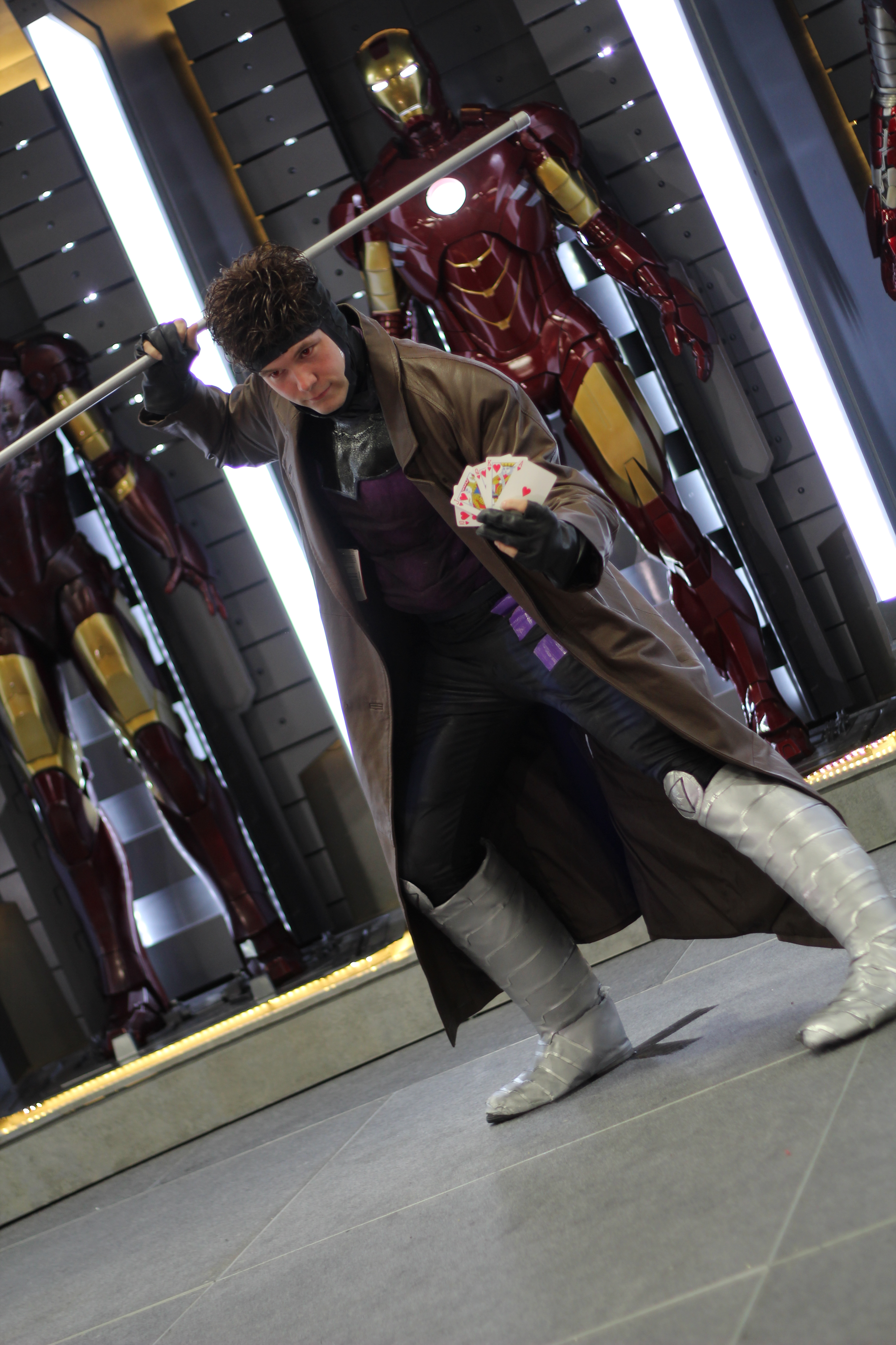 SDCC 2012 Cosplay at San Diego Comic-Con (SDCC 2012).